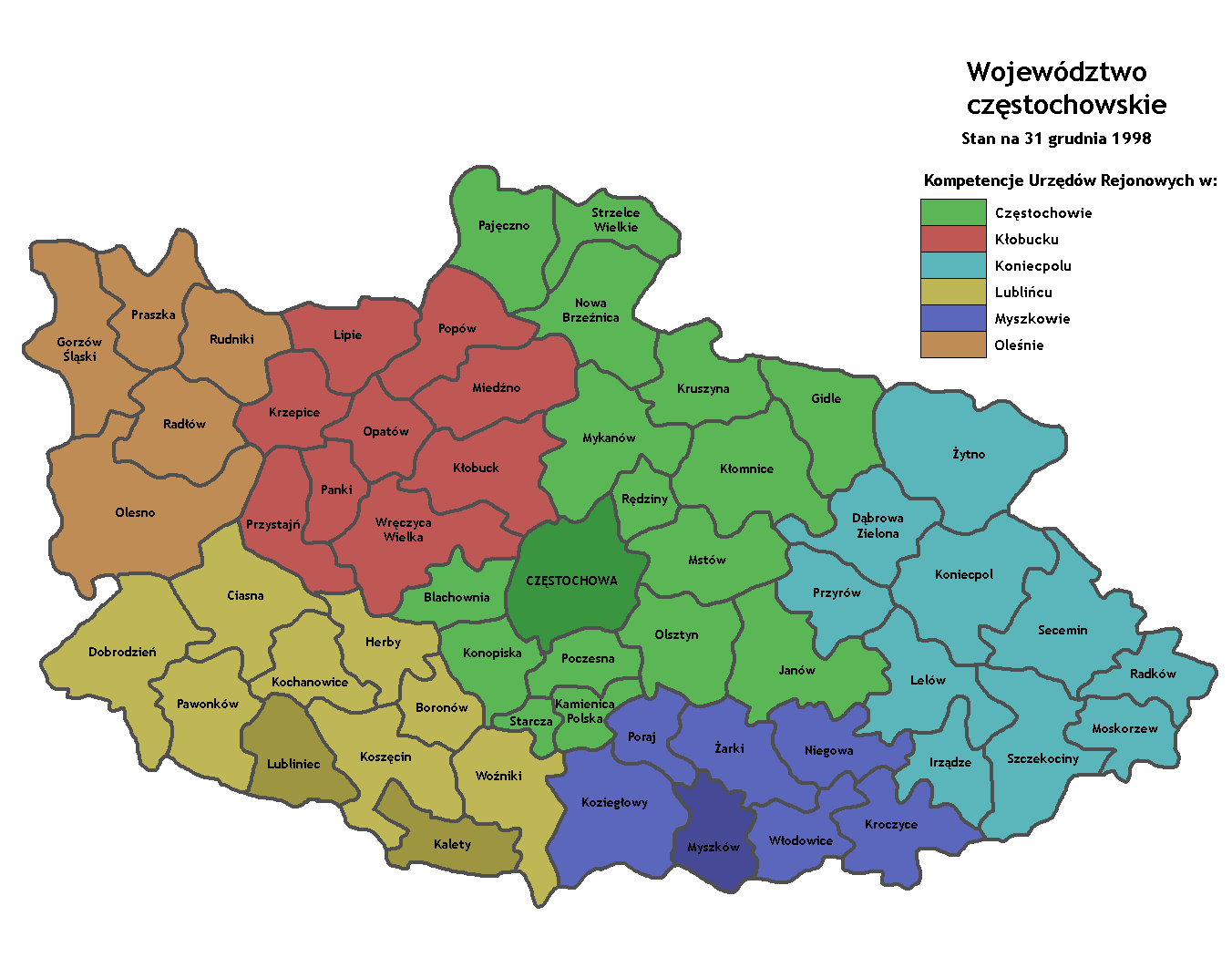 Map of the Częstochowa voivodeship in the last day of its existence (31 december 1998).